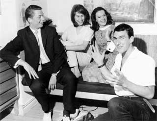 Graduated students of the Swedish Theatre Scool of Finland in 1963. From the left: Roger Nikkanen, Berit Lundell, Christina Indrenius-Zalewski, Holger Svedlin (later Ior Bock).